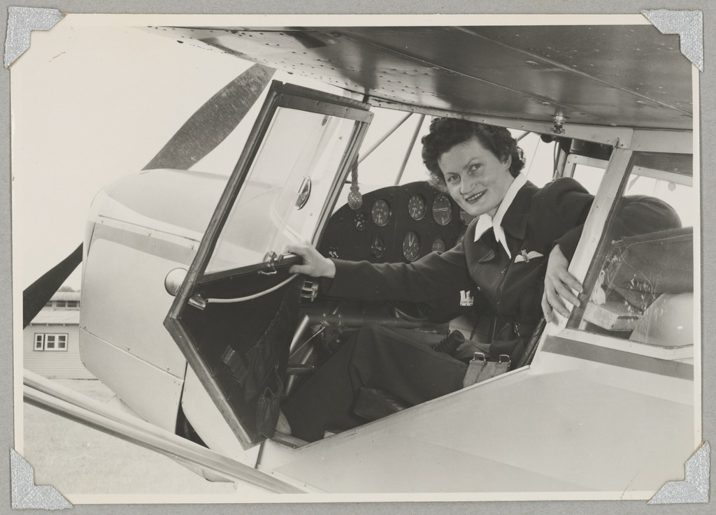 Visatone (Aust.) Inscriptions: "Meg Cornwell"--On mount; "Super Autocar' VH-ADY"--In pencil on verso; Visatone (Aust.) stamp on verso.; Part of the collection: Australian Women Pilots' Association.; Catalogue record generated as part of a batch load.; Also available in an electronic version via the internet at: .au/nla.pic-vn5015594. Persistent URL .au/nla.pic-vn5015594